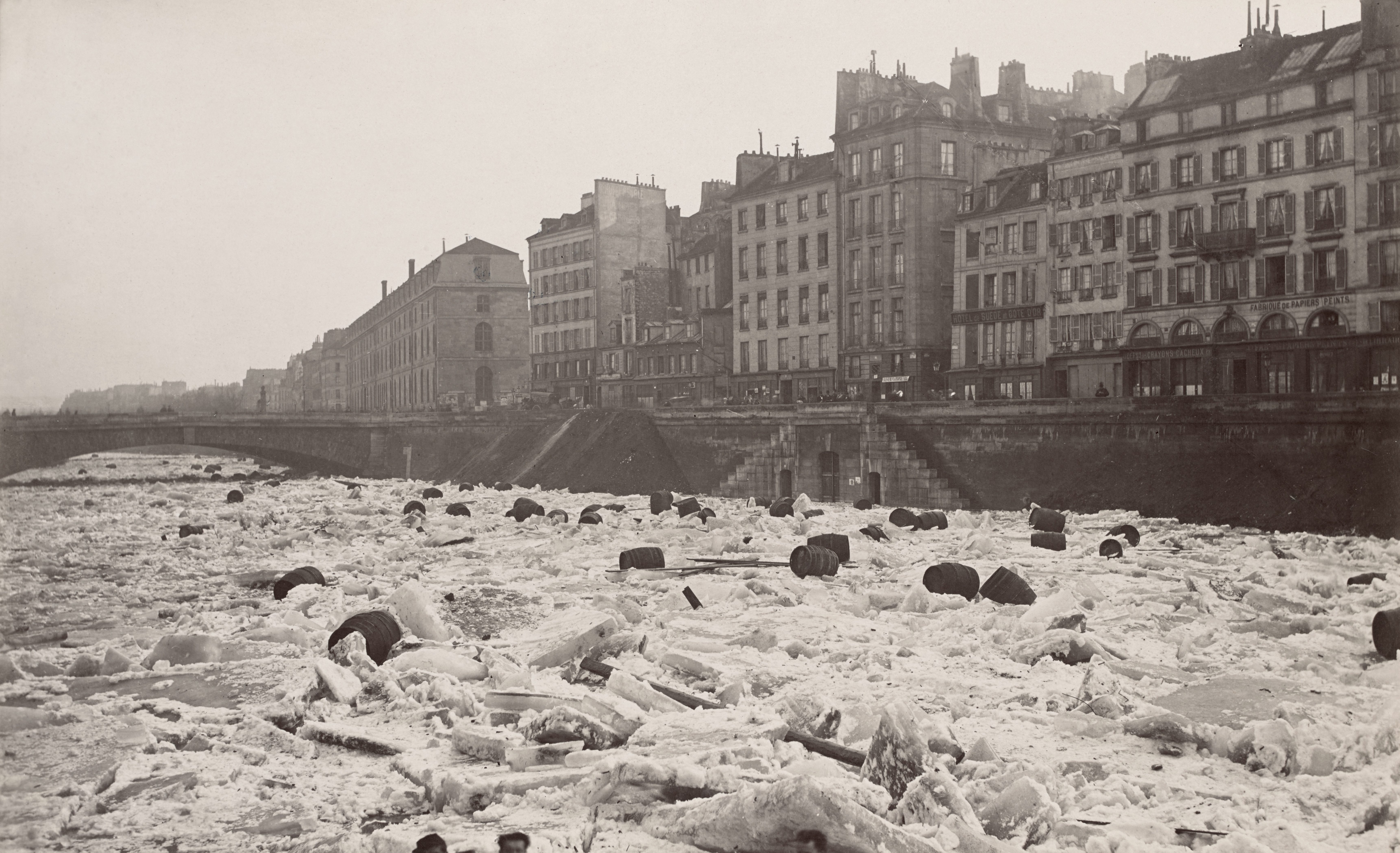 La Seine (petit bras) Le 3 Janvier 1880: Vue du quai Saint-Michel: Looking along frozen river littered with barrels and blocks of ice, quay and buildings on opposite bank.